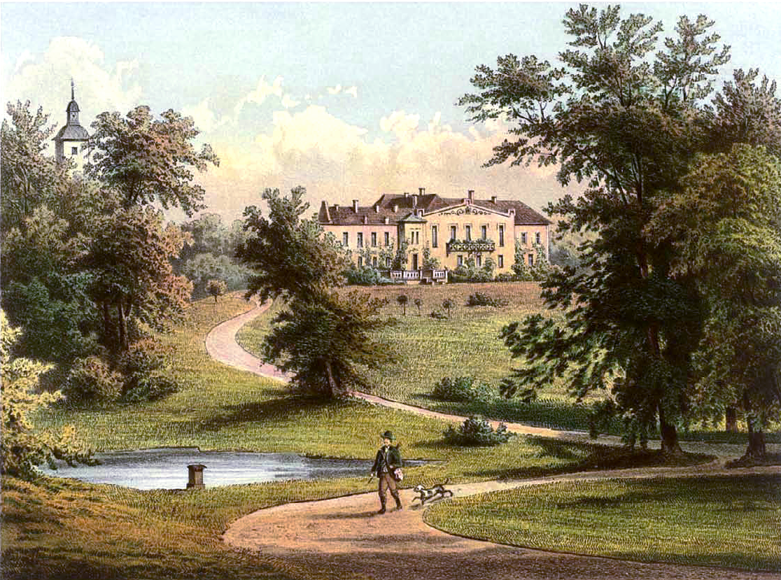 Dłużek